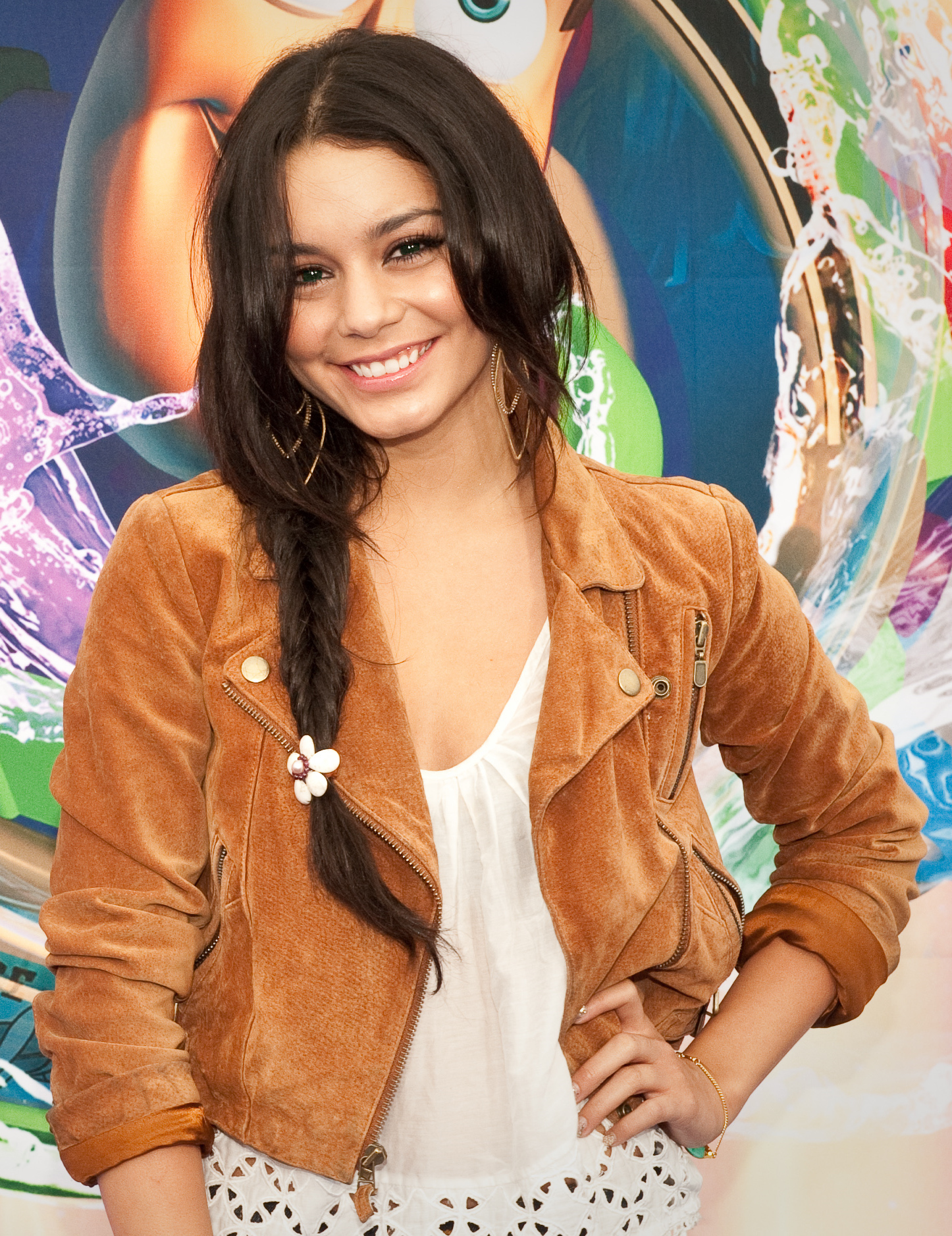 Vanessa Hudgens at the World of Color Premiere Disney California Adventure